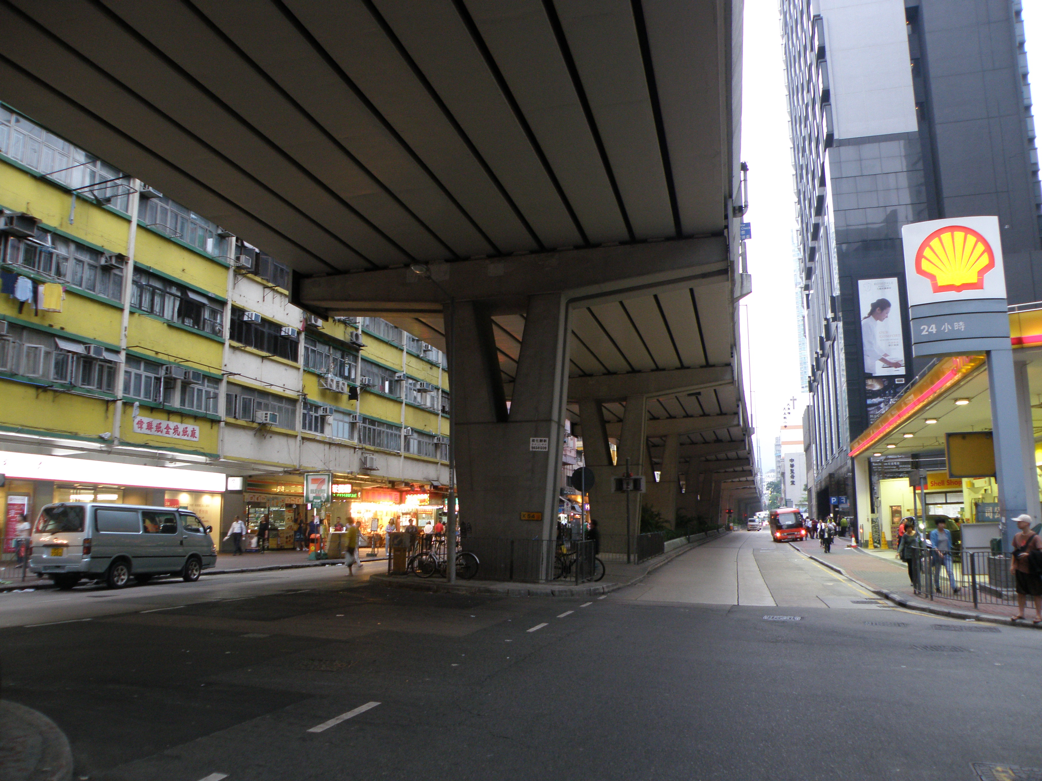 Tai Kok Tsui Road in Tai Kok Tsui, Hong Kong.